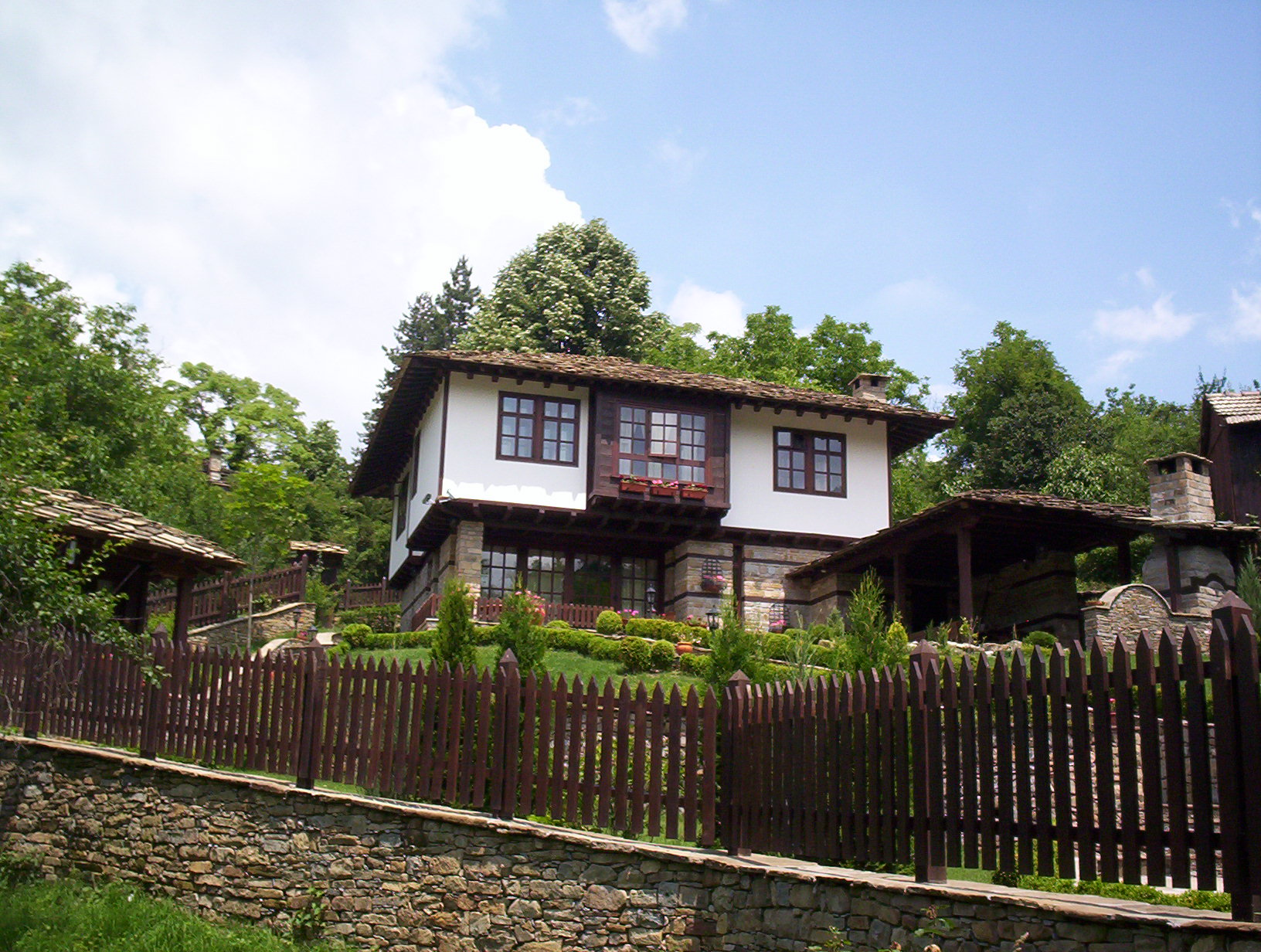 Architectural and historical reserve